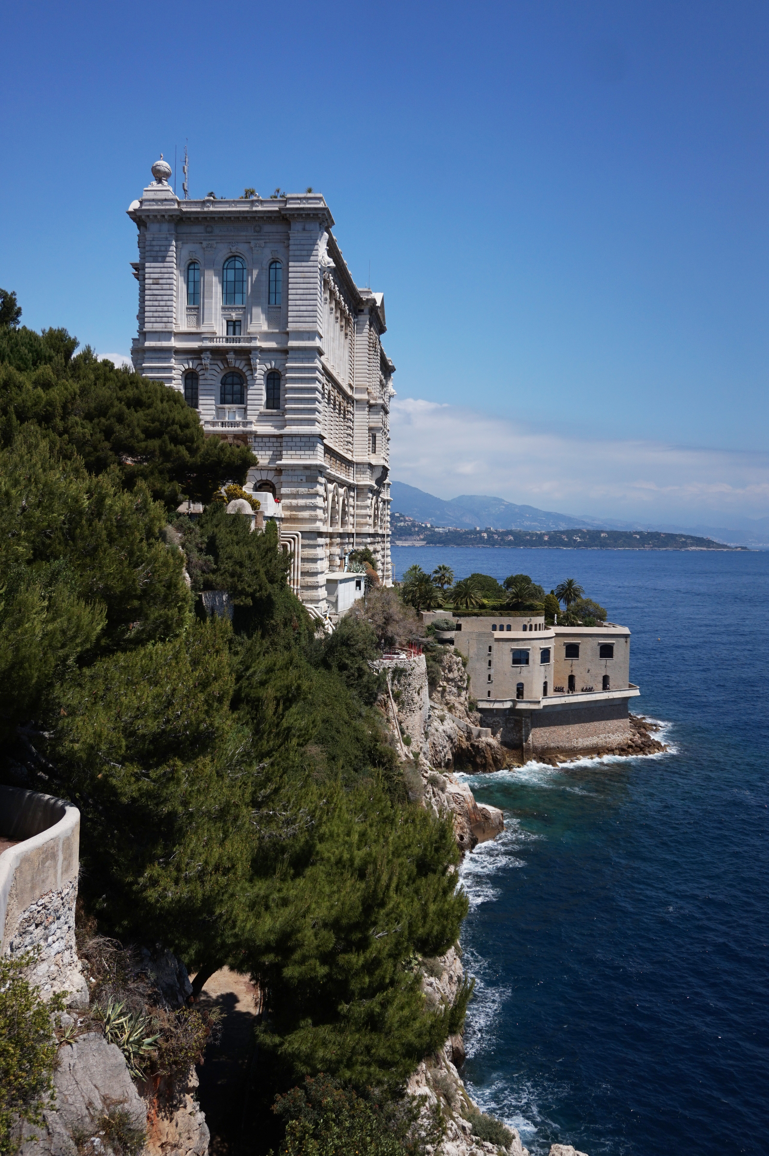 South-West part of the building of Musée Océanographique de MonacoThis photograph was taken with a Sony ILCE-5000